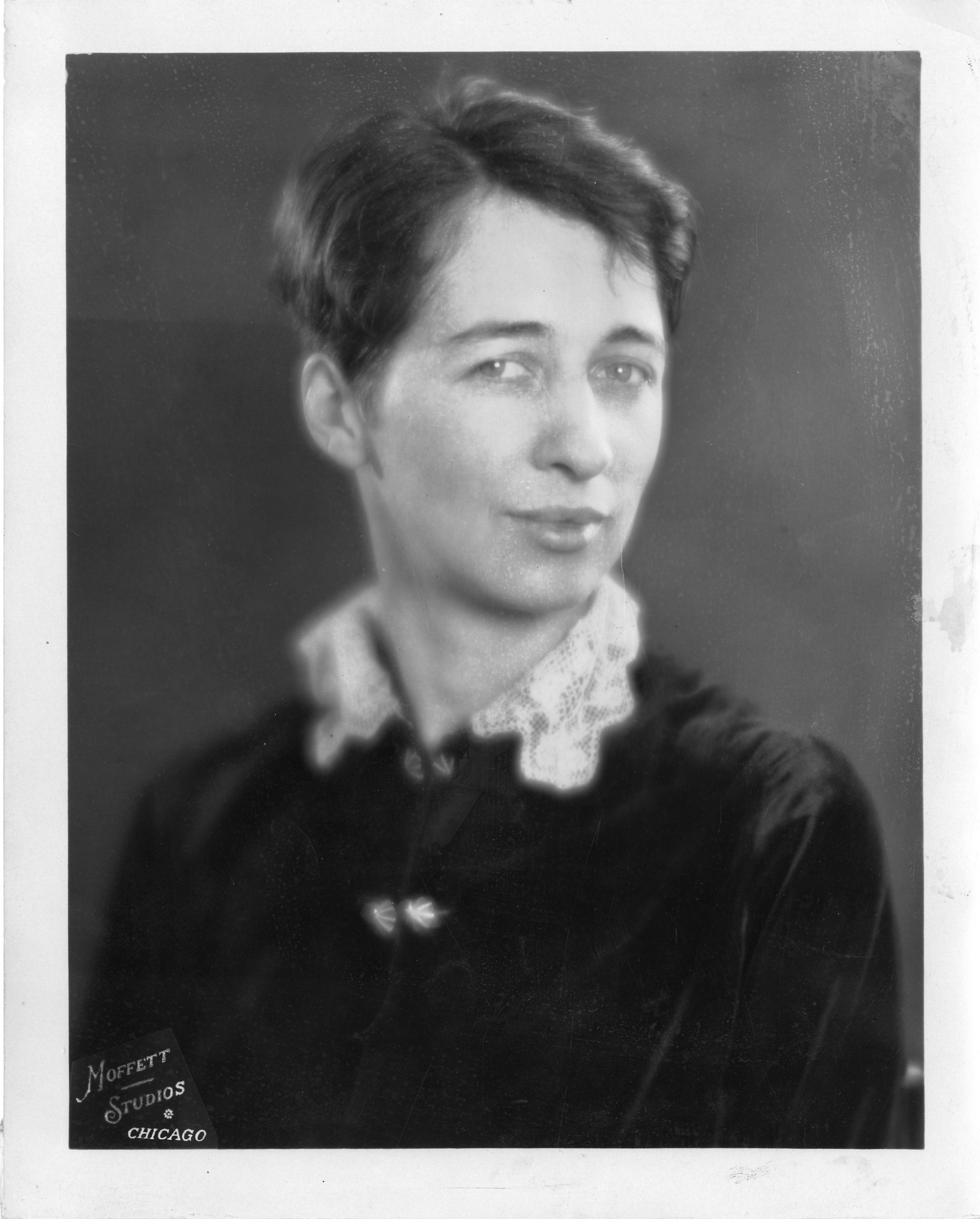 Charlotte Gower Chapman (1902-1982), an ethnologist and author of Milocca: A Sicilian Village, was teaching at Lingnan University in China when the United States entered World War II; she was taken prisoner by the Japanese and repatriated in 1942. Chapman then joined the Marine Corps, was assigned to the Office of Strategic Services, and, in 1947, became a Central Intelligence Agency employee, working there until her retirement in 1964. This public relations photograph, distributed by the University of Chicago, where Chapman earned a Ph.D. in anthropology in 1928, was captioned "Miss Charlotte Gower studies Sicilians in their native hills, in Chicago's Little Italy, in agricultural settlements in the south." The book based on her fieldwork had been completed in 1935 but was not published until 1971.